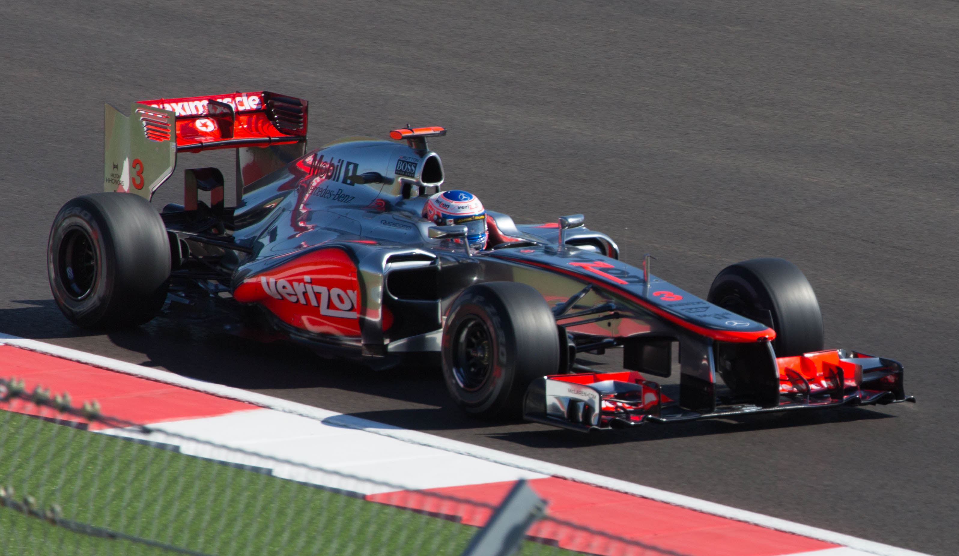 Jenson Button driving for McLaren at the 2012 United States Grand Prix.